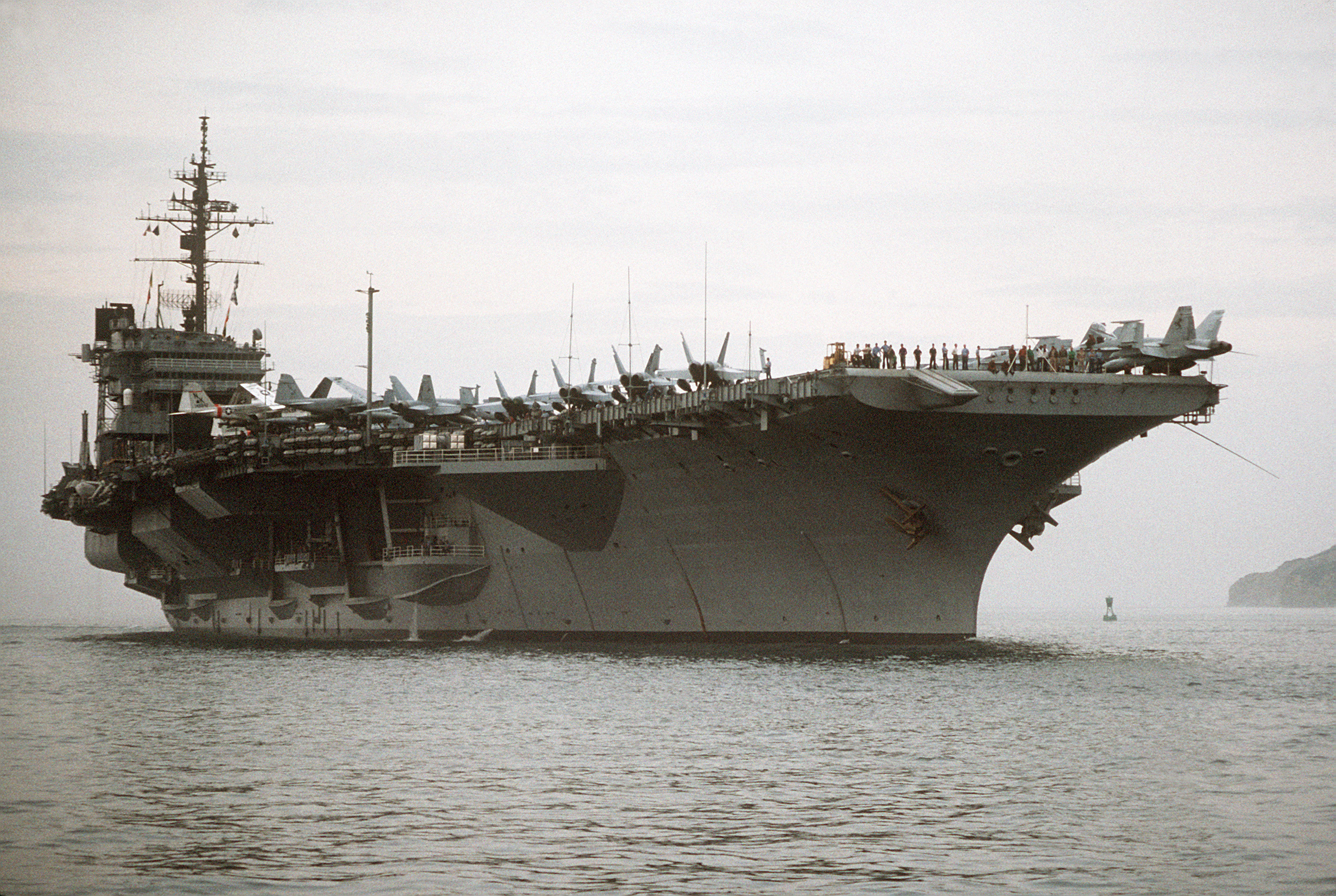 The U.S. Navy aircraft carrier USS Constellation (CV-64) passing Point Loma, San Diego, California (USA), during exercise "PACEX '89".